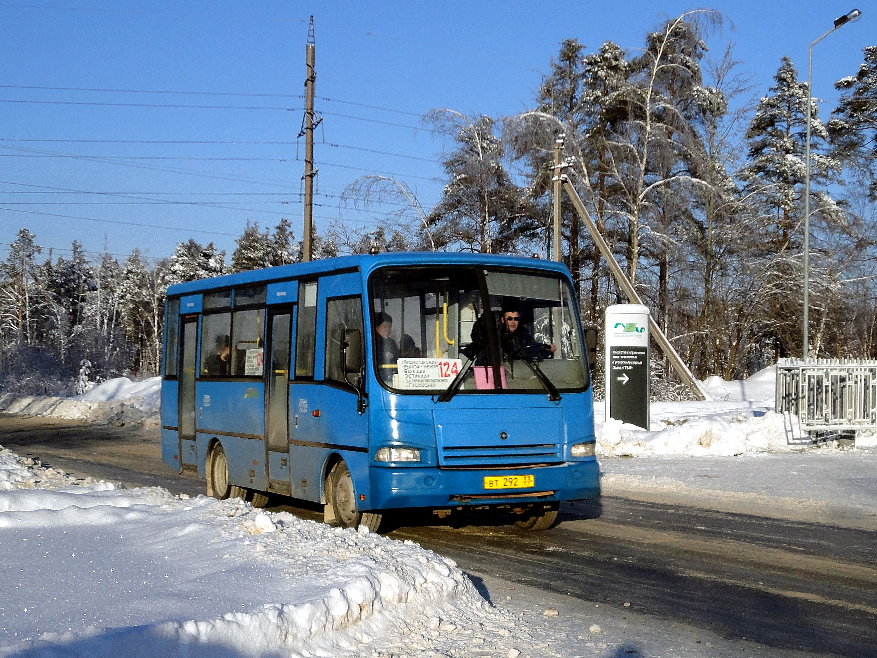 PAZ 320401-01 bus (reg. ВТ 292 33) in Gus-Khrustalny, Vladimir Oblast, Russia.